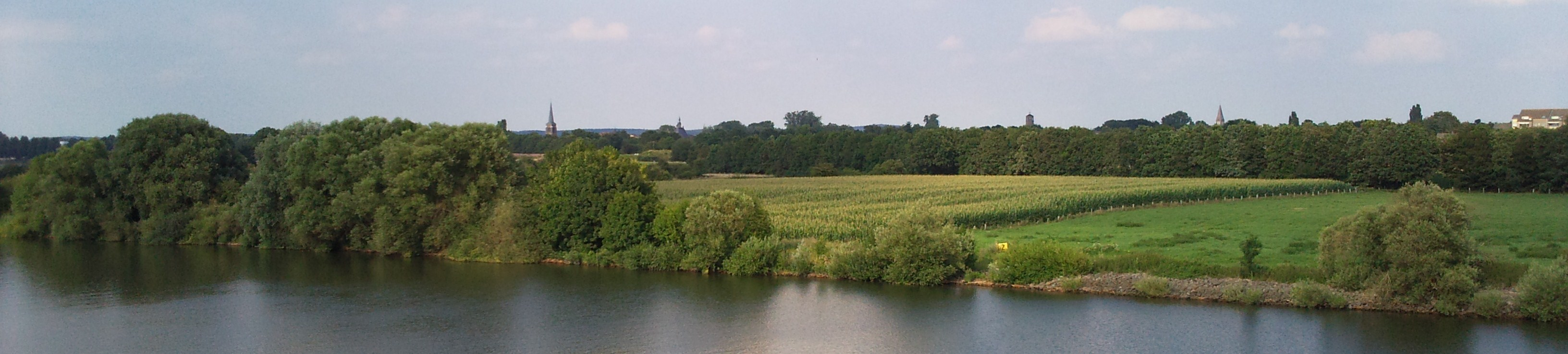 View on Meuse, Gennep and Ottersum